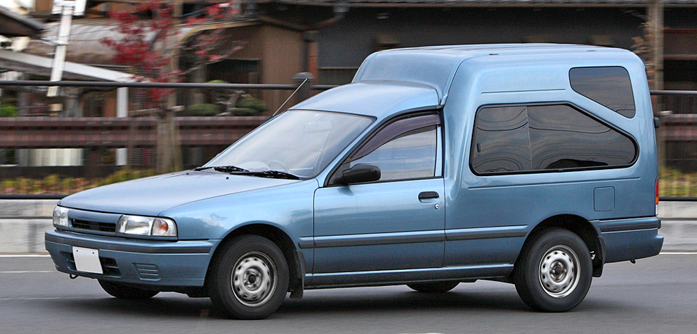 Nissan AD Max Van 1.5 VX ( VFGY10 )